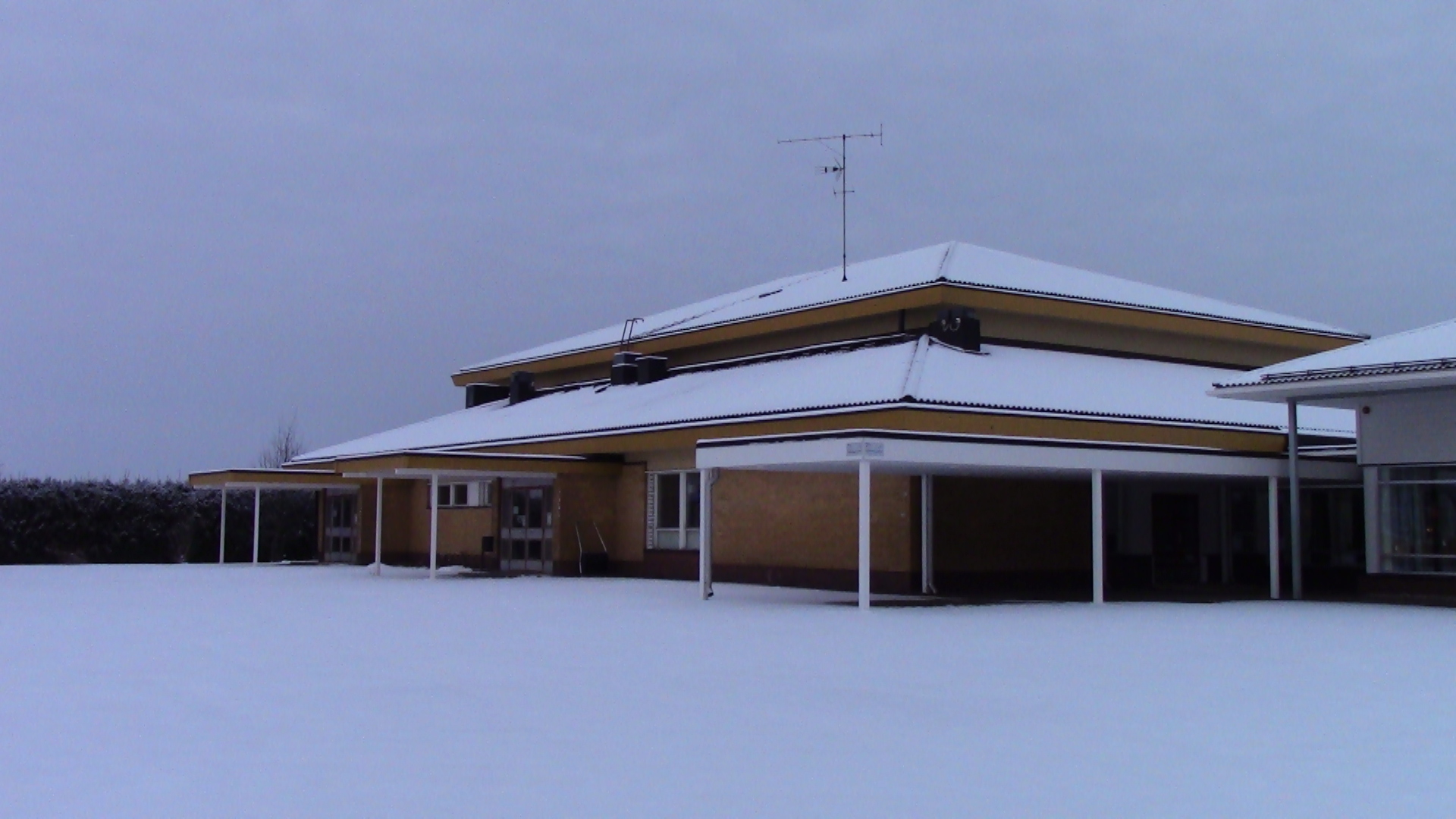 Newer building of Lallin koulu elementary school at Kankaanpää village in Säkylä, Finland.